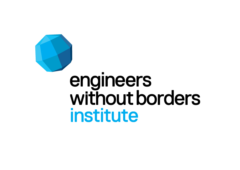 EWB Institute logo